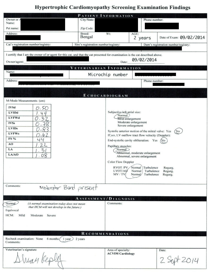 Jpeg of a completed HCM report